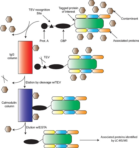 A. Tandem affinity chromatography: a protein of interest is first engineered to contain a Protein A (filled in circle) tag, a Tobacco Echo Virus recognition site (TEV, filled in triangle), and a calmodulin binding peptide (CBP) tag (filled in ellipse). Extracts are made from cells expressing the tagged protein, which should contain associated proteins and contaminants. These complexes are bound to an IgG column, and washed to remove majority of contaminants. TEV protease is then used to elute the semi-purified protein complexes which are subsequently absorbed onto a calmodulin column. After further washing, purified protein complexes containing the protein of interest and its associated proteins are eluted by calcium chelation (EGTA) and identified using LC-MS/MS.